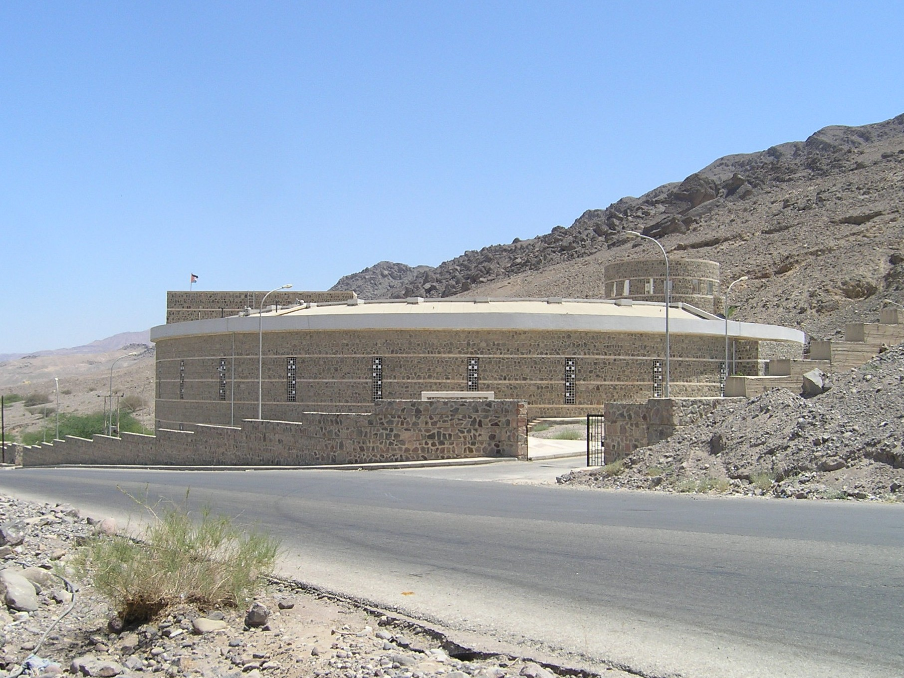 Museum at the Lowest Place on Earth (MuLPE), in Jordan near the Dead Sea